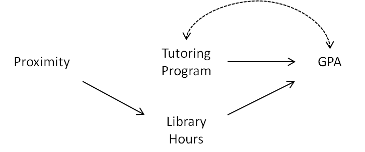 Graph used to decide whether Proximity is an instrument